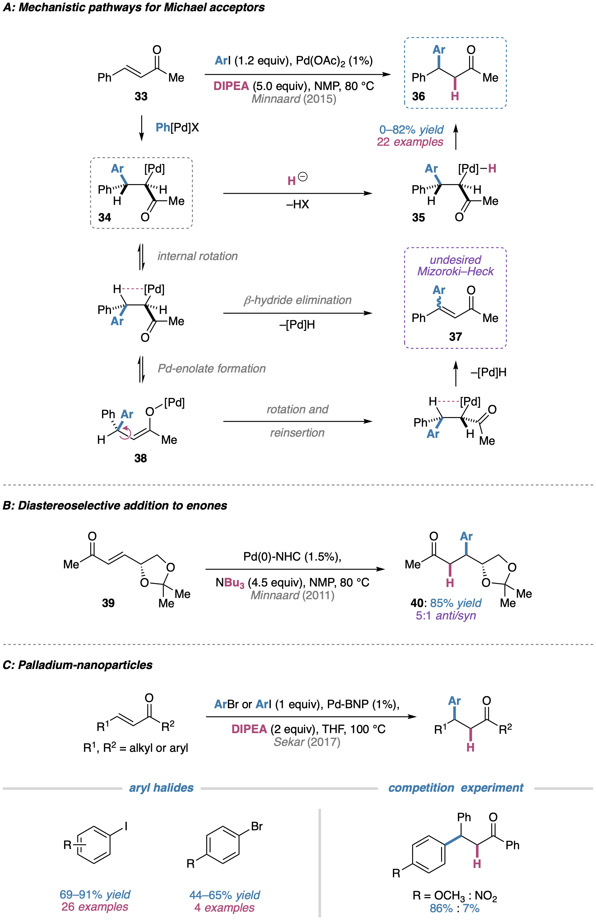 Reactions with α,β-Unsaturated Enones/Enals. (A) Mechanistic pathways for the reductive Heck reaction of Michael acceptors proposed by Cacchi and Minnaard. (B) Example of diastereoselectivity in the reductive Heck reaction of a D-mannitol-derived enone. (C) Examples of reductive Heck reactivity in conjugate additions catalyzed by binaphthyl-backbone-stabilized palladium nanoparticles.